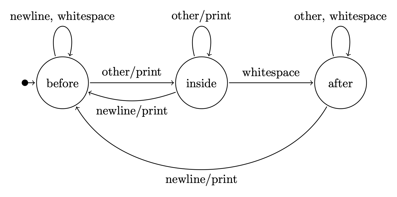 The state diagram of a finite-state machine that prints the first word of each line of an input stream. The machine follows exactly one transition on each step, depending on the current state and the encountered character. The action accompanying a transition is either a no-operation or the printing of the encountered character, denoted with print.